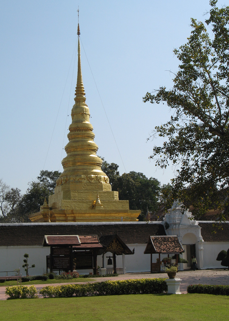 Phra That Chae Haeng (วัดพระธาตูแช่แห้ง), Nan Province.